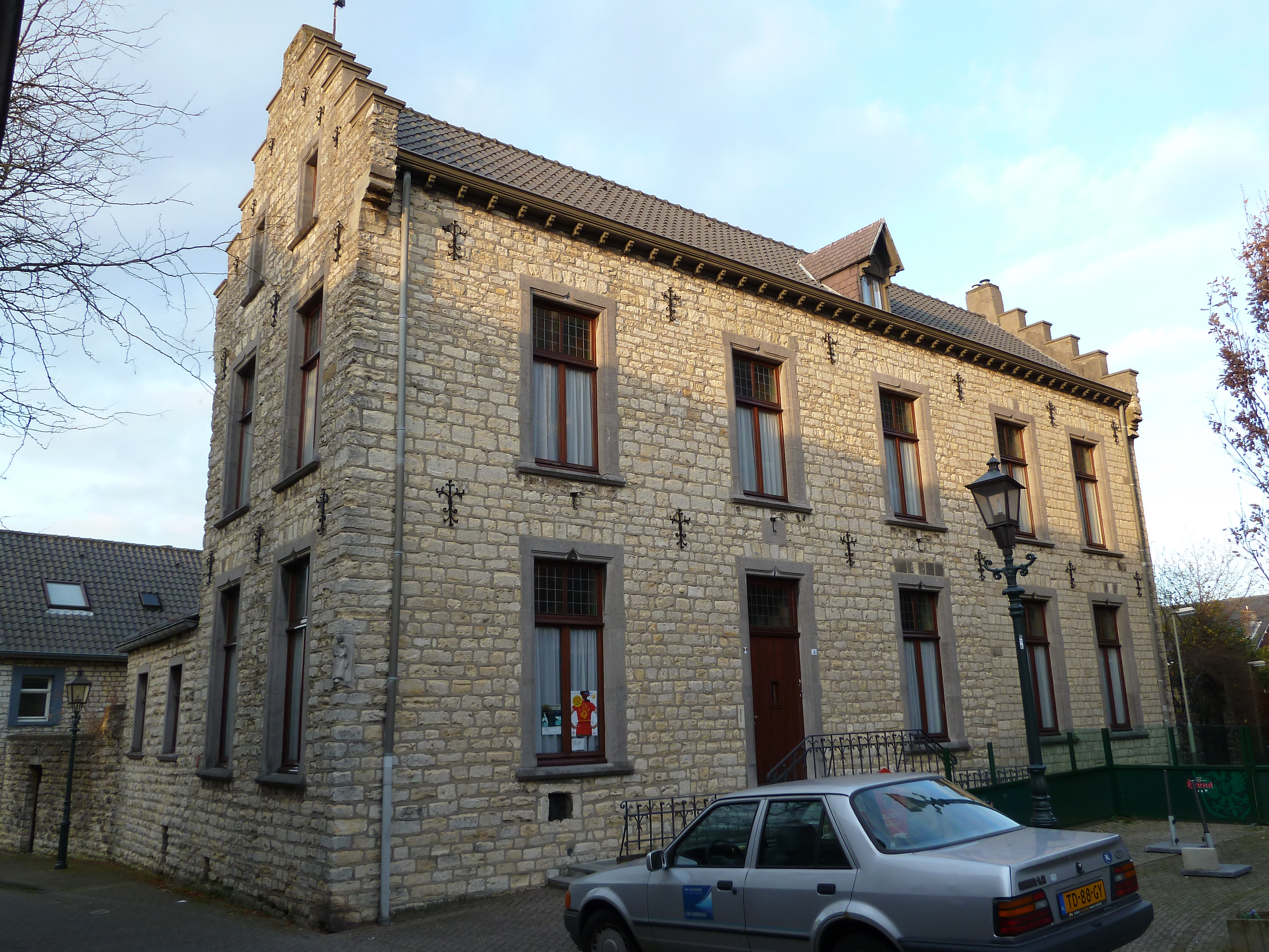 Pastoor Neujeanstraat 8, Bocholtz, Limburg, the Netherlands